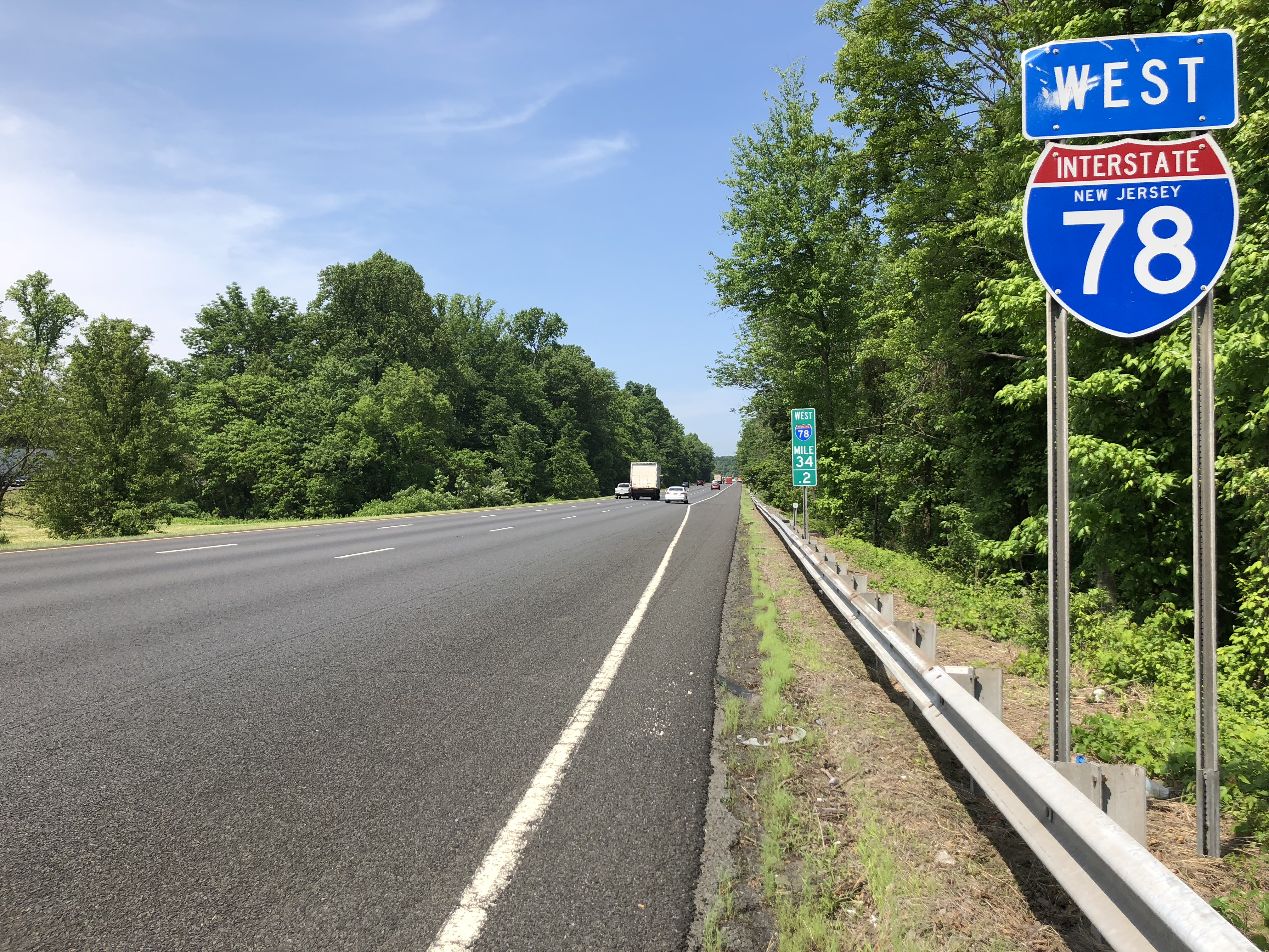 View west along Interstate 78 (Phillipsburg-Newark Expressway) between Exit 33 and Exit 29 in Bernards Township, Somerset County, New Jersey